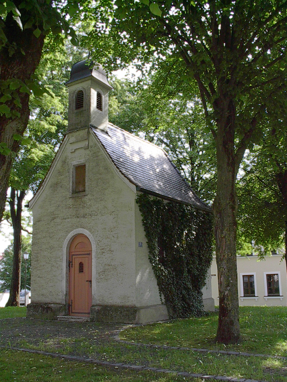 Die Antoniuskapelle zur Erinnerung an einstige Kirche sterben